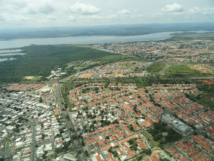 Puerto Ordaz is a planned city which, together with the older settlement of San Felix, forms Ciudad Guayana in Bolívar State, eastern Venezuela.